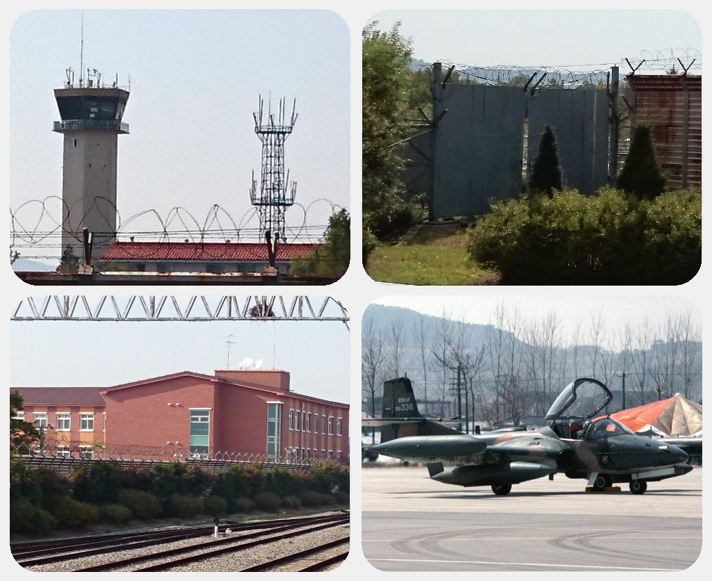 Suwon Air Base, viewed from Seryu station. All photographs taken by me at 12 october 2014, except the 4th cut : Original file is File:A-37B ROKAF during Team Spirit 1986.JPEG.